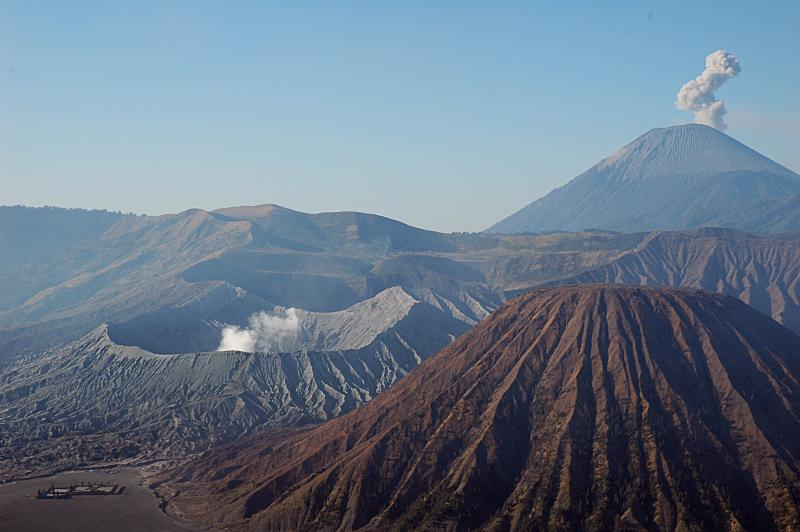 Clockwise from lower left: Hindu temple, white-plumed Mt. Bromo, erupting Mt. Semeru, stately Mt. Batok. East Java, Indonesia. Photograph by User:Jpatokal, and uploaded to Wikitravel as Image:Semeru_Bromo_Temple.JPG.